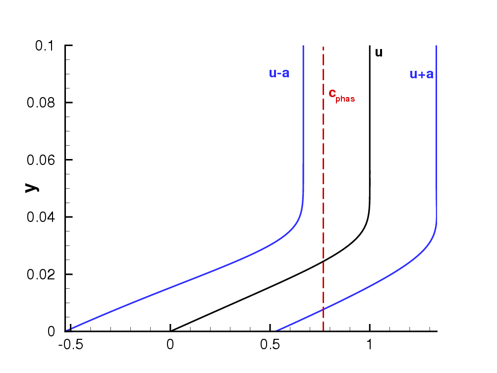 illustration of locally supersonic phase velocity in a supersonic boundary layer